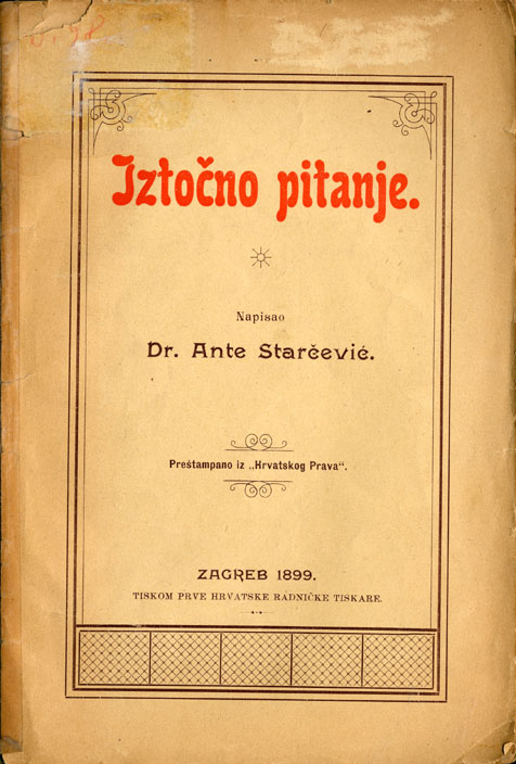 Cover of the first edition of Iztočno pravo, written by Ante Starčević